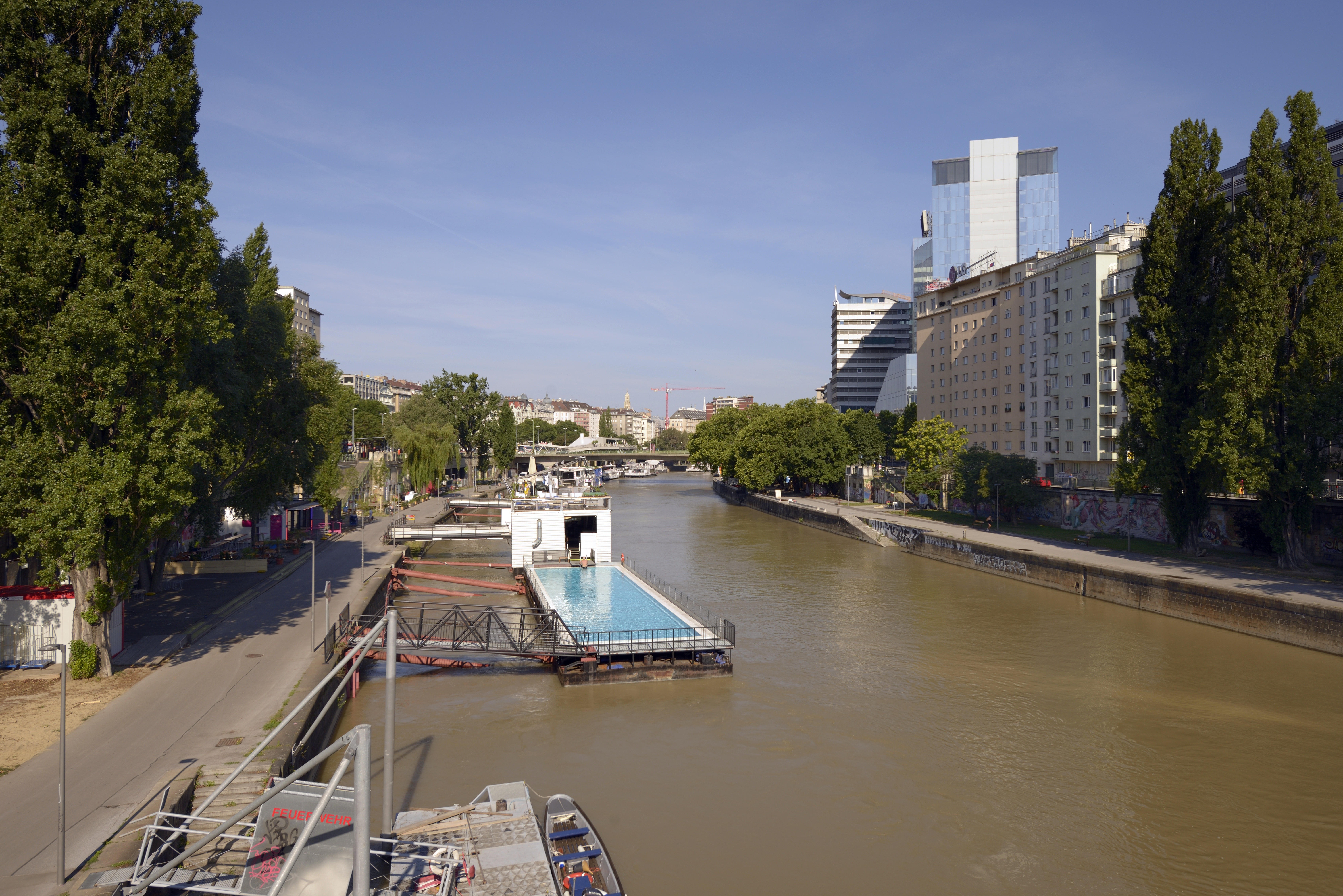 Floating swimming pool, Donaukanal, Vienna